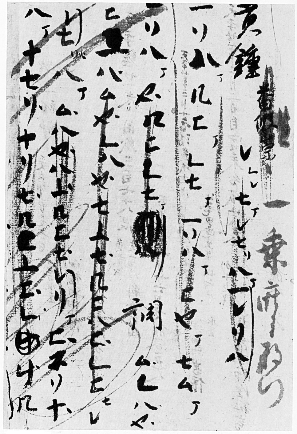 The "Tempyō Biwa Fu" 天平琵琶譜 [Tempyō Lute Score], which is a single-sheet manuscript preserved at the Imperial Storehouse (Shōsōin 正倉院) at Nara in Japan. This is the oldest surviving example of Chinese lute music in Japan, being dated to circa 738. The sheet comprises a fragment of a single tune entitled "Fanjia Chong" 番假崇 in the "huangzhong diao" 黃鐘調 mode.